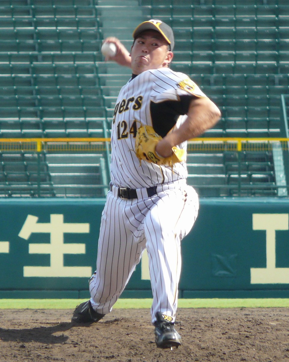 Hanshin Tigers/Koji Yoshioka